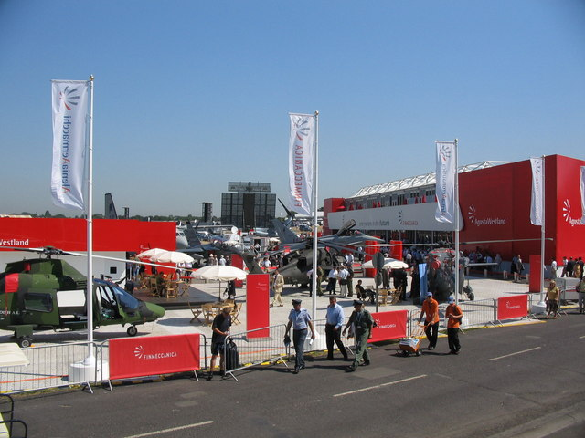 Farnborough Airshow 2006. A view looking northeast towards the AgustaWestland display area at the 2006 Farnborough Airshow.